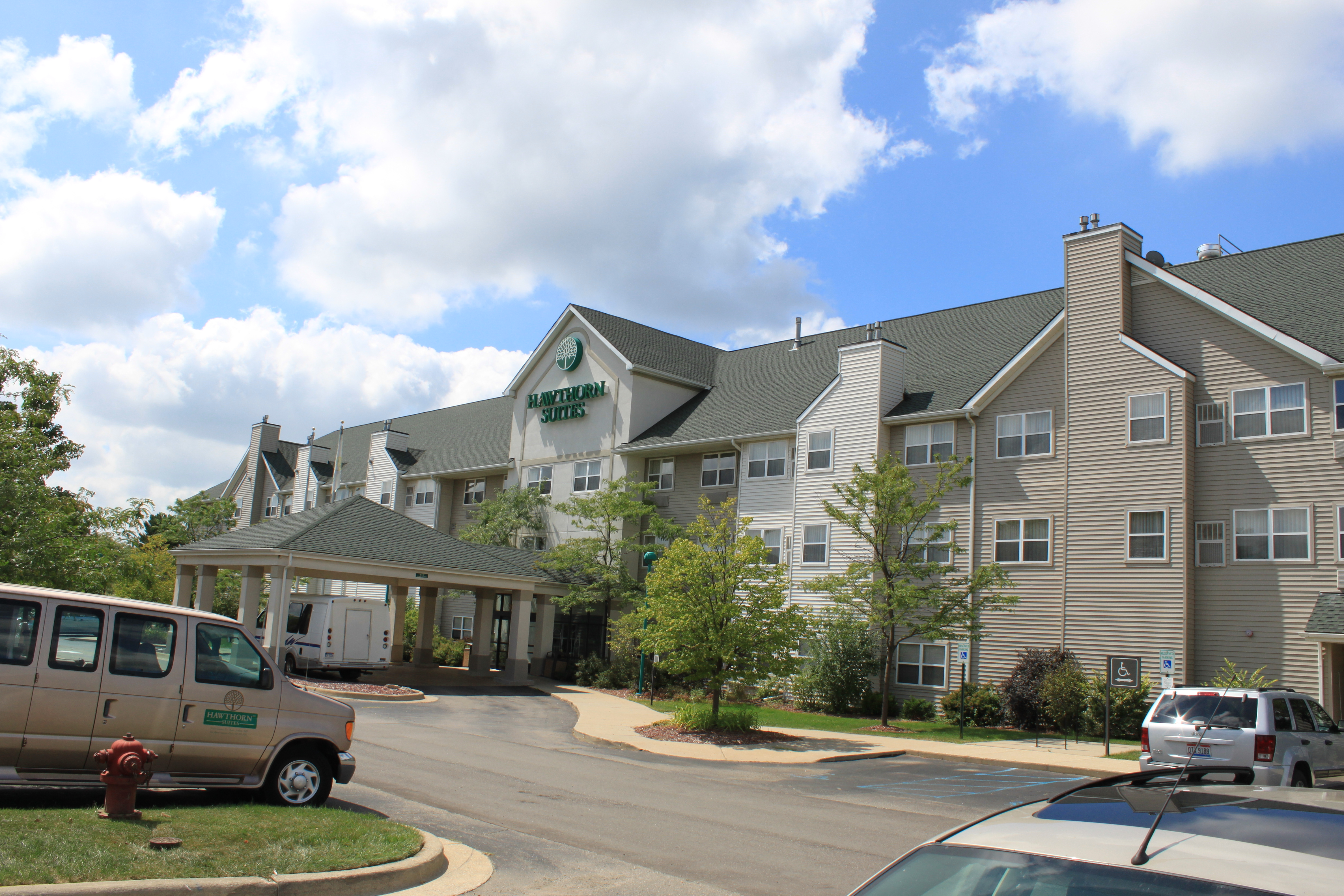 Hawthorn Suites, 3535 Green Ct., Ann Arbor, MI 48105